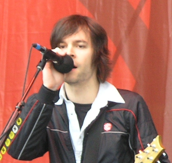 Taken during MyCokeFest at Centennial Olympic Park in Atlanta